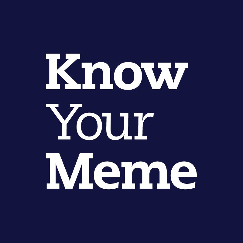 Logo of Know Your Meme